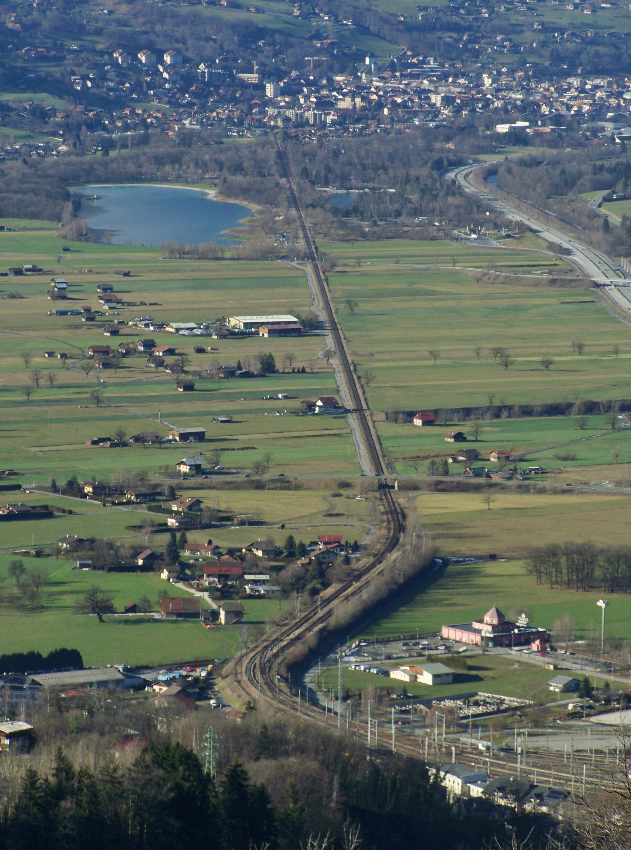 Panoramic view, from the heights of Saint-Gervais-les-Bains, of the French La Roche sur Foron to Saint-Gervais-les-Bains Le Fayet railway line, here seen between Saint-Gervais Le Fayet (bottom of the picture) and Sallanches (top of the picture), in the river Arve valley, in Haute-Savoie.